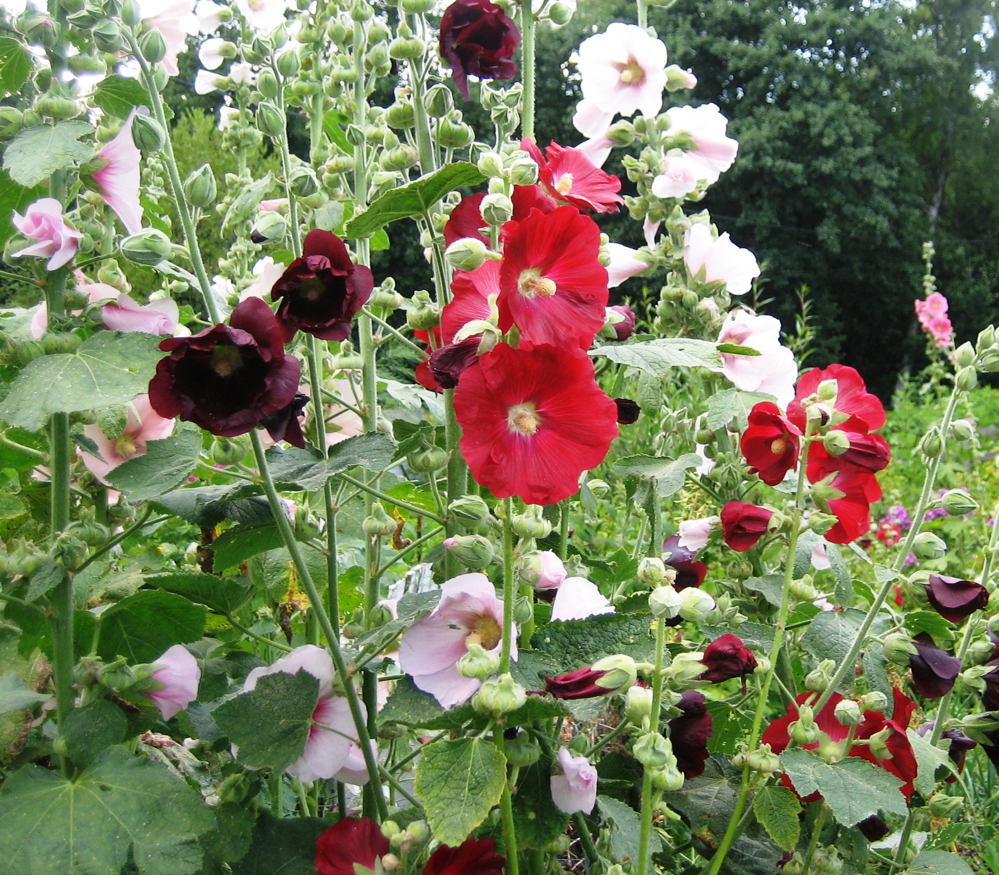 Hollyhock